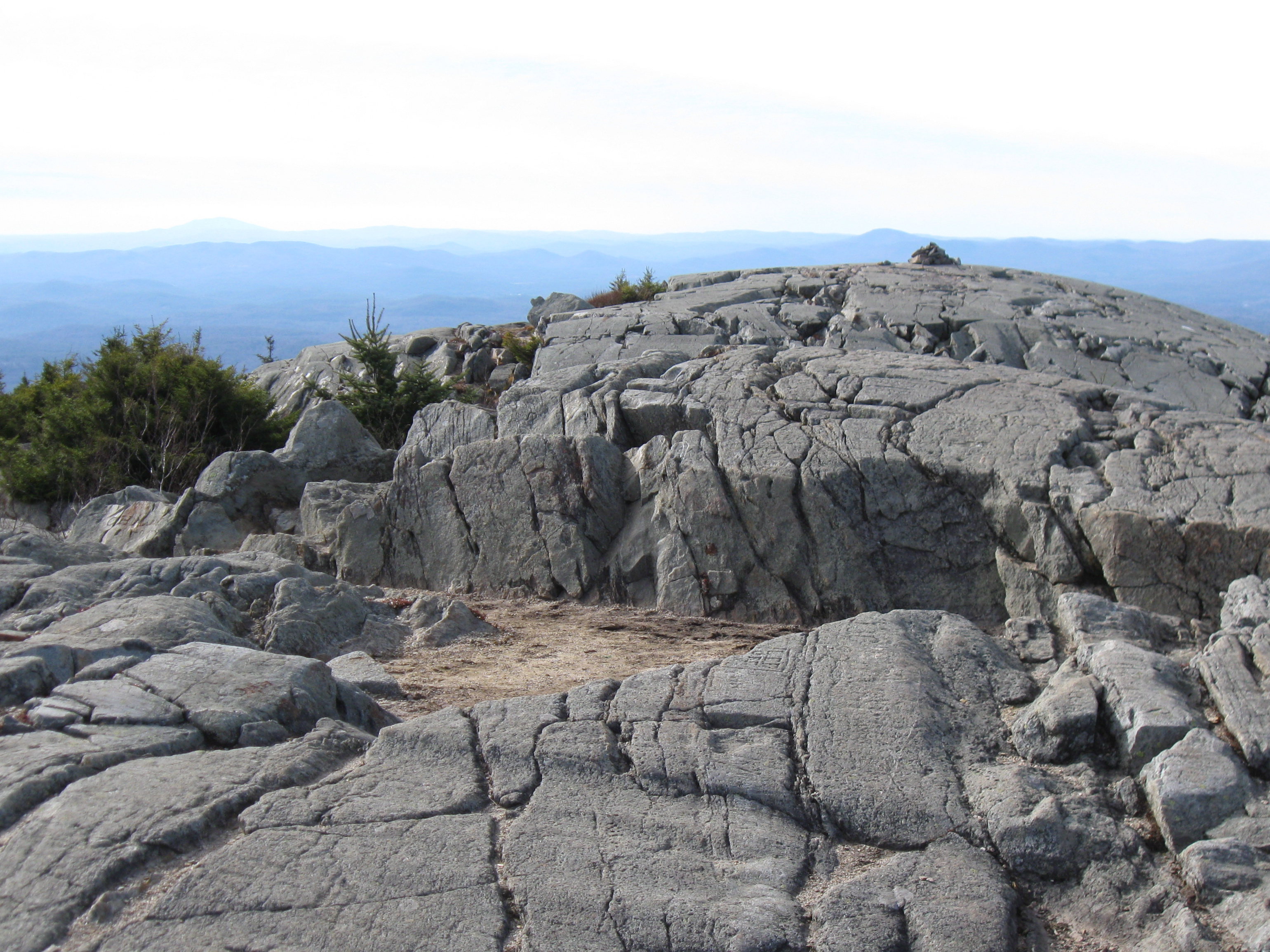 The summit of Mount Kearsarge (Merrimack County, New Hampshire), November 11, 2009.